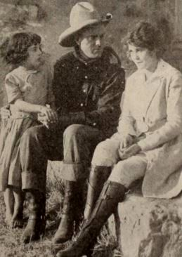 Still from the American western film Untamed (1918) with Mae Giraci, Roy Stewart, and Ethel Fleming, on page 53 of the September 7, 1918 Exhibitors Herald.